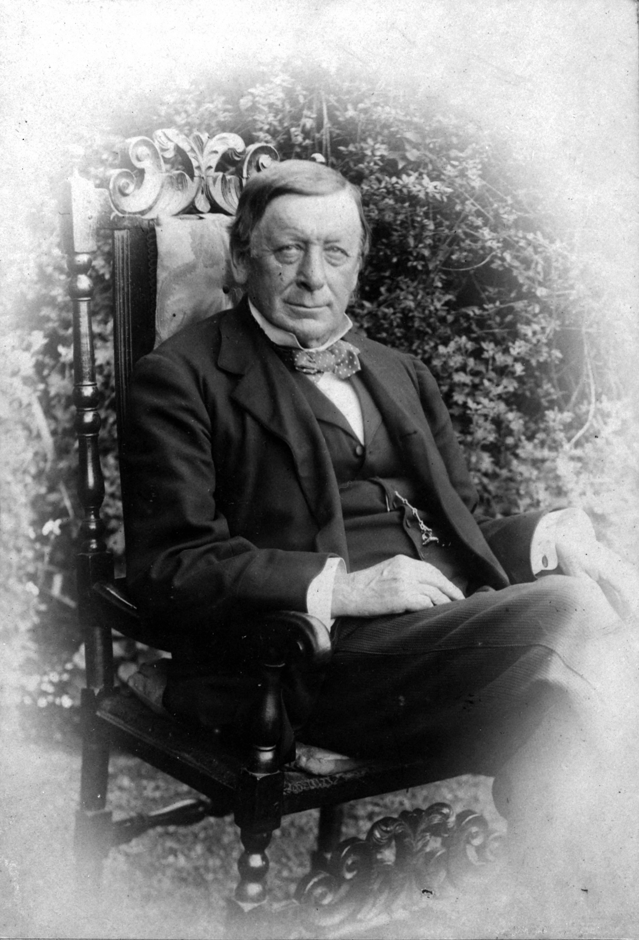 William Rolleston in retirement, 1900. Location and photographer unidentified.